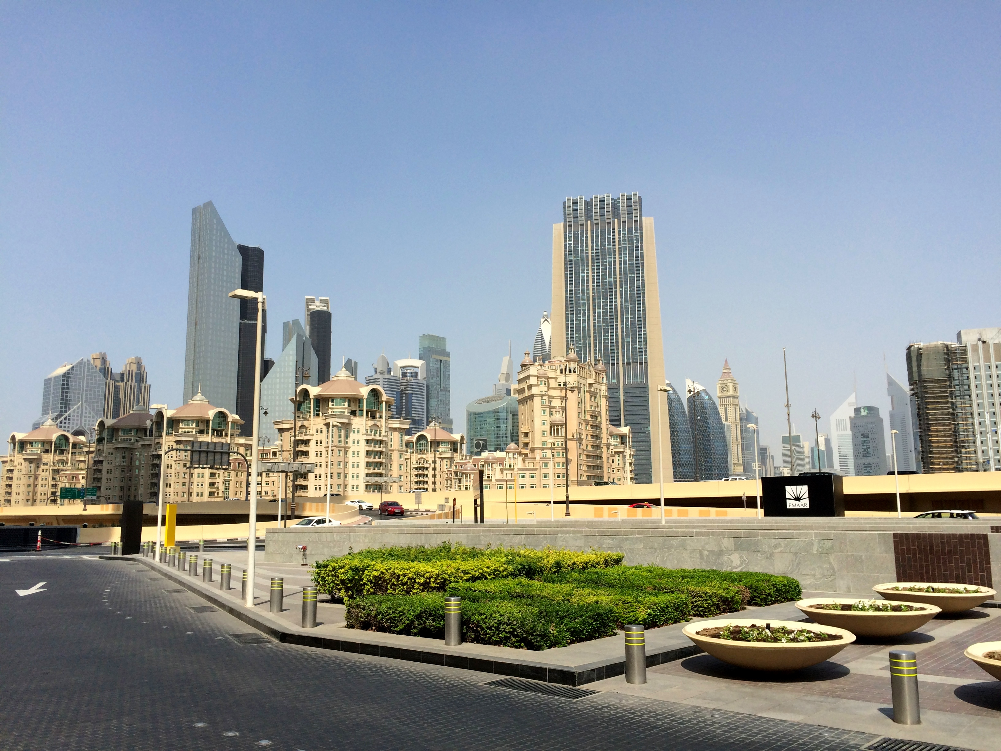 Dubai International Financial Center from Dubai Mall